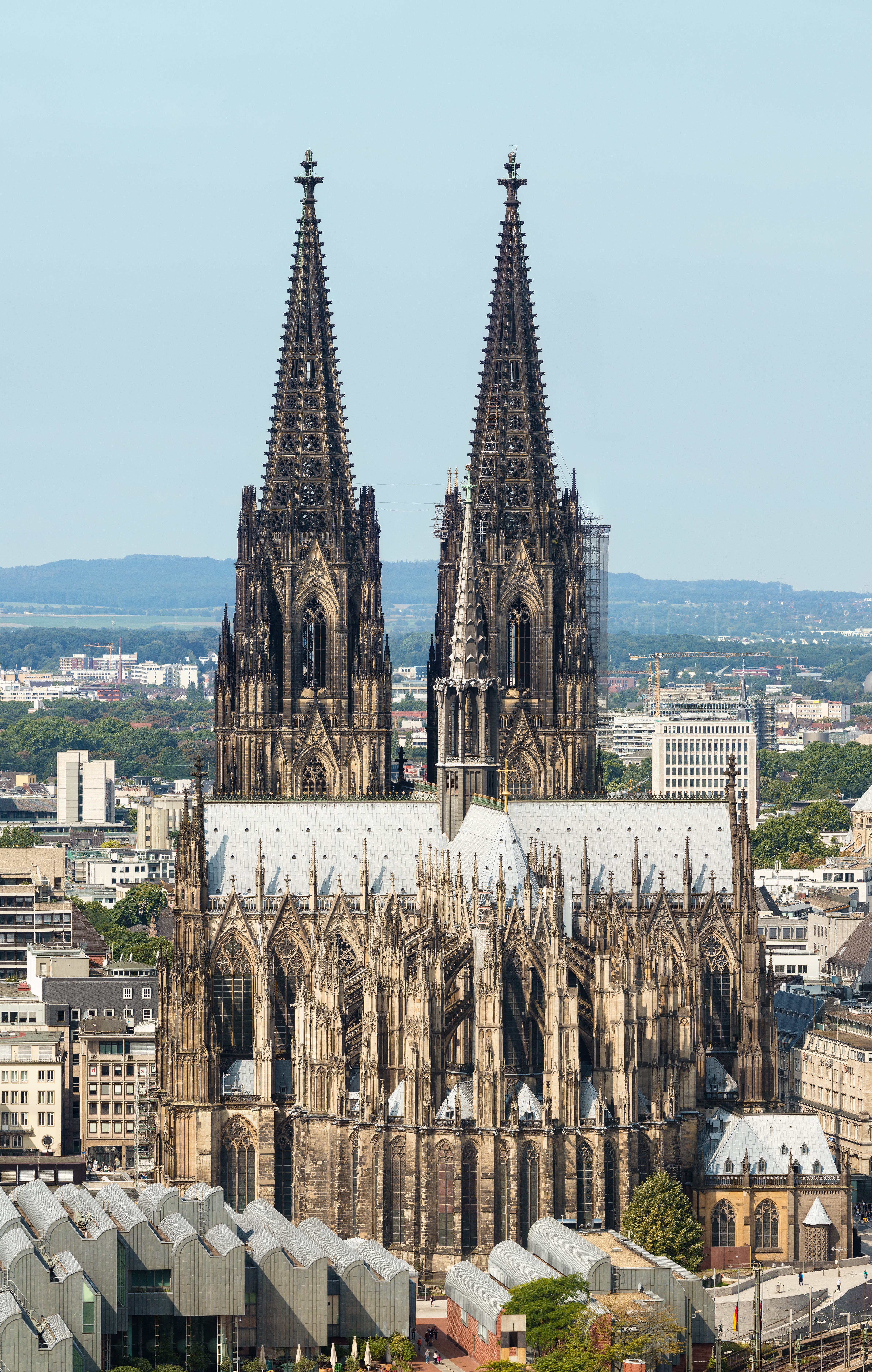 Cathedral in Cologne, Germany.